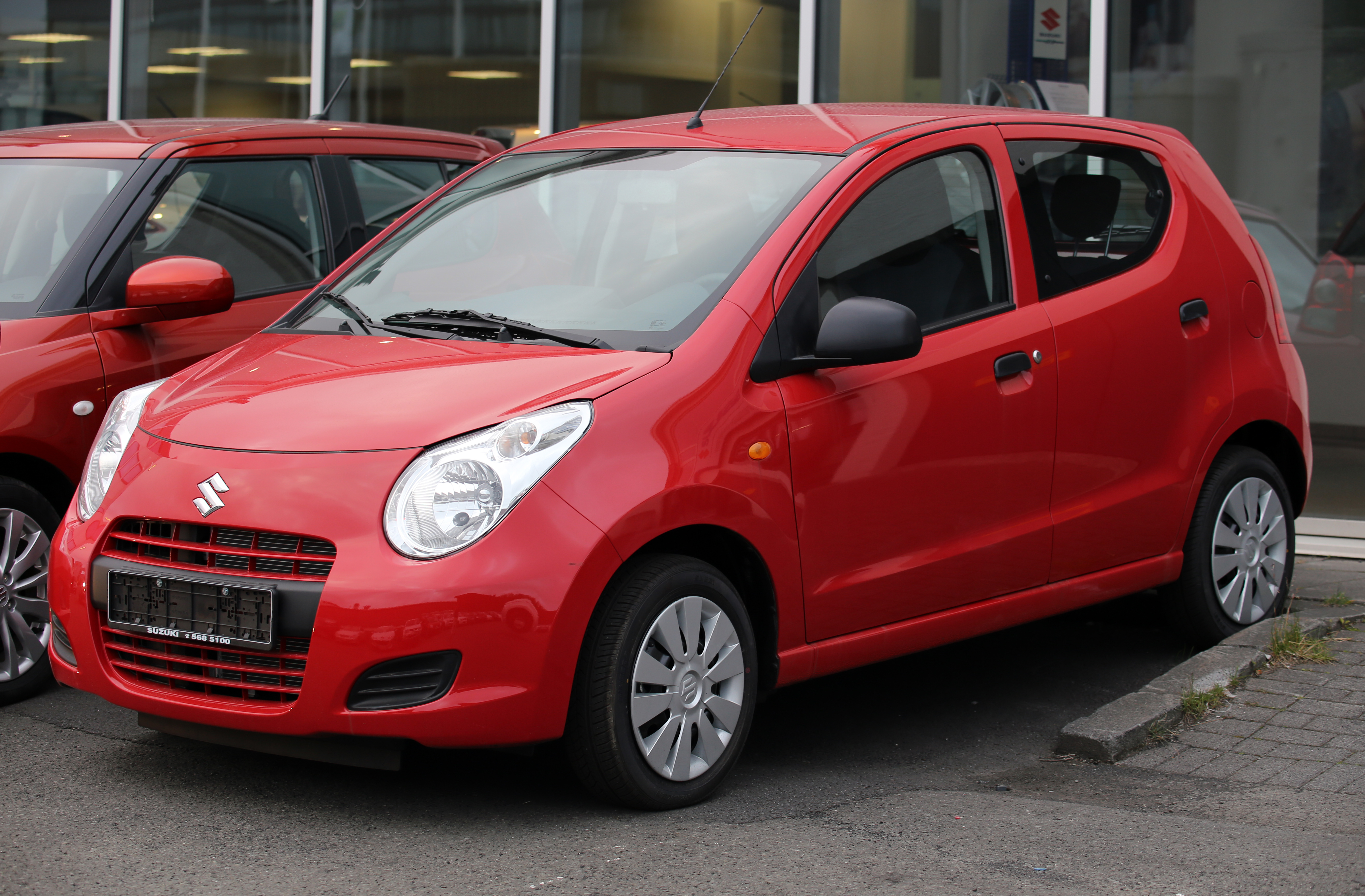 2013 Suzuki Alto at a dealership in Iceland.